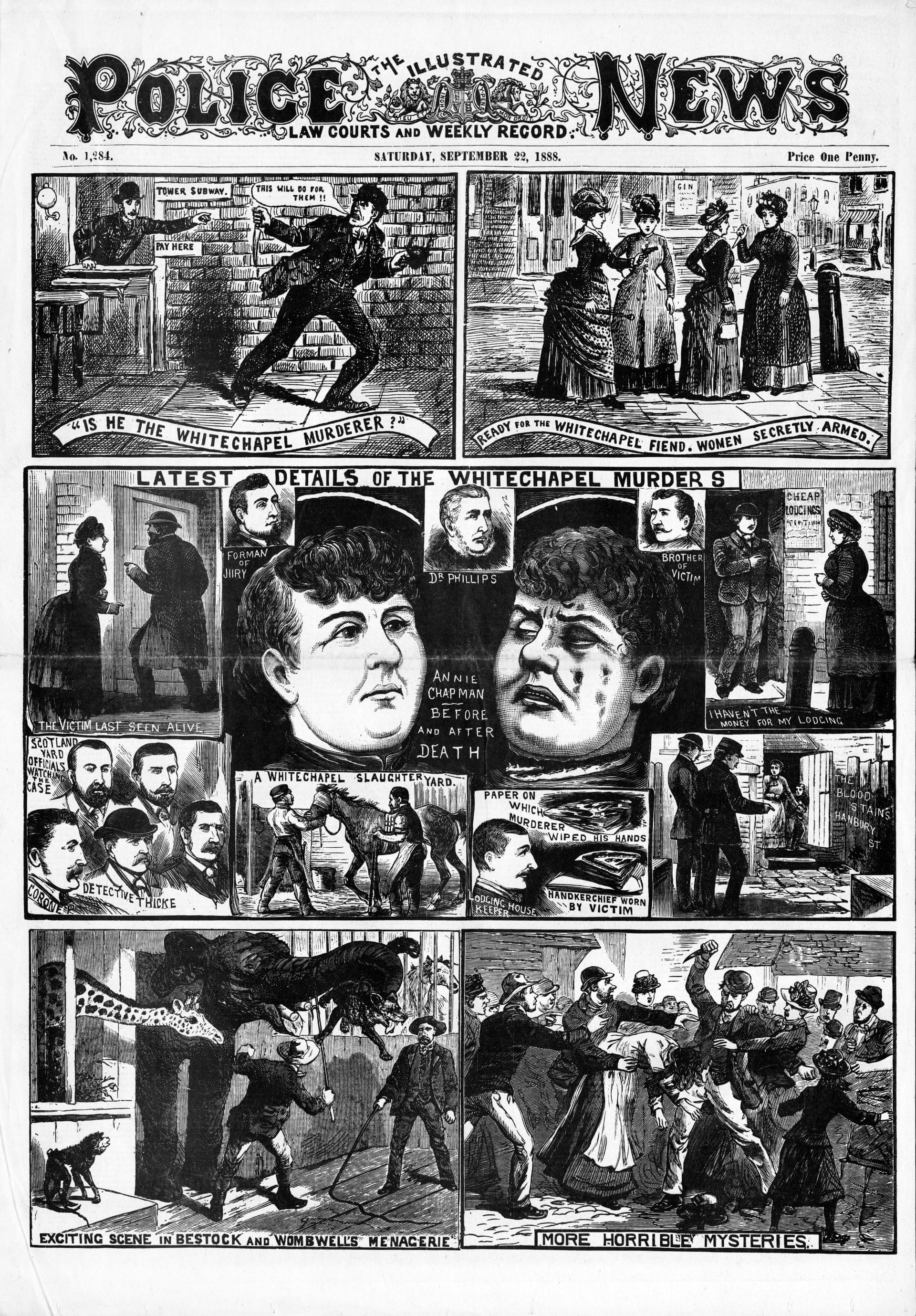 "Latest Details of the Whitechapel Murders : Annie Chapman - before and after death", The Illustrated Police News, Saturday, September 22, 1888.